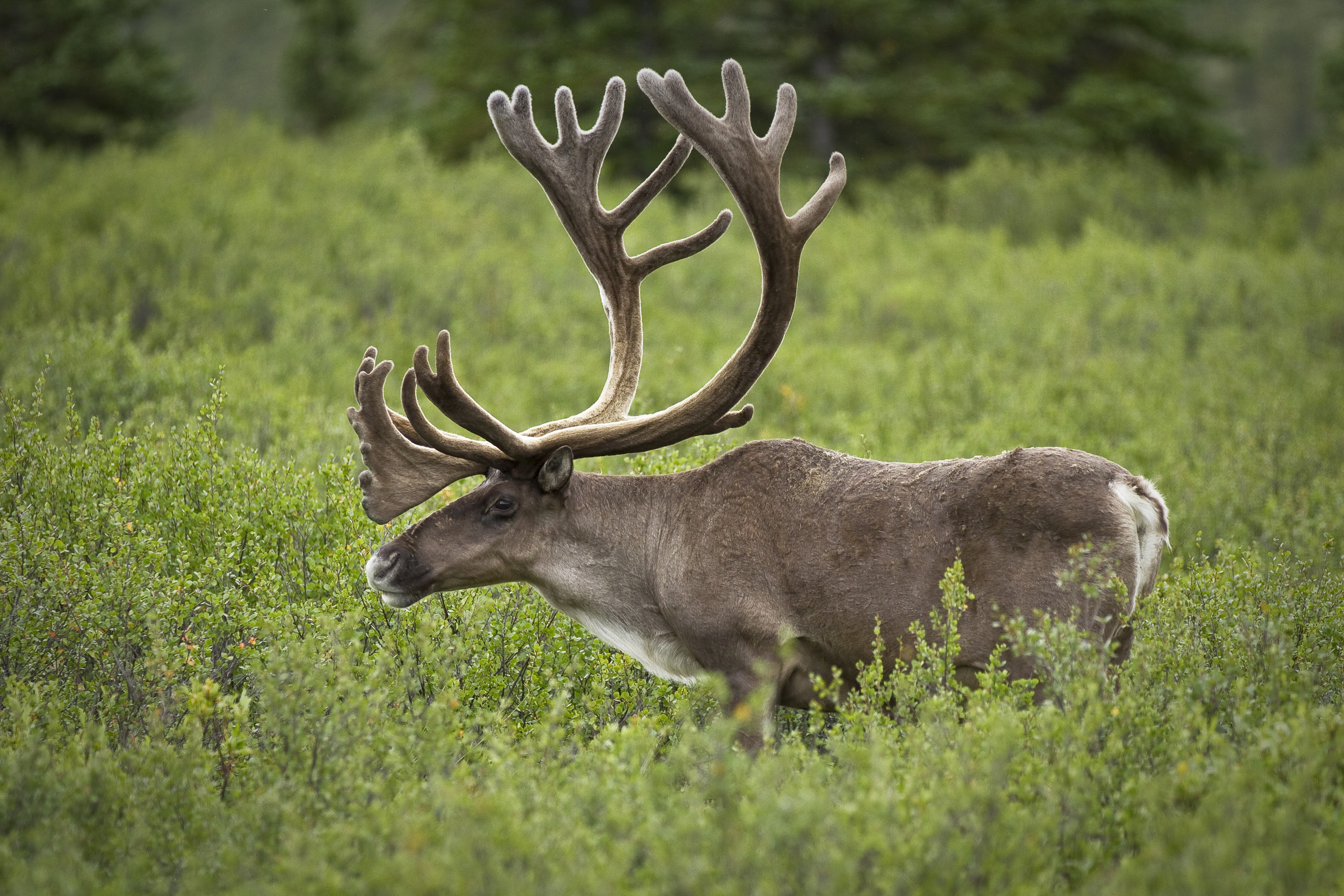 NPS / Jacob W. Frank Check out the official Denali Facebook, Twitter and YouTube pages: Like us on Facebook: Follow us on Twitter: Denali YouTube Channel